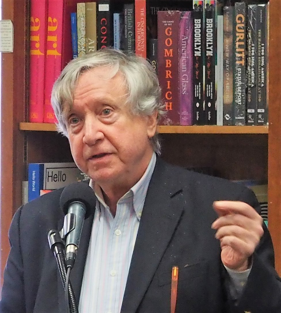 reading at Politics and Prose, Washington, D.C.